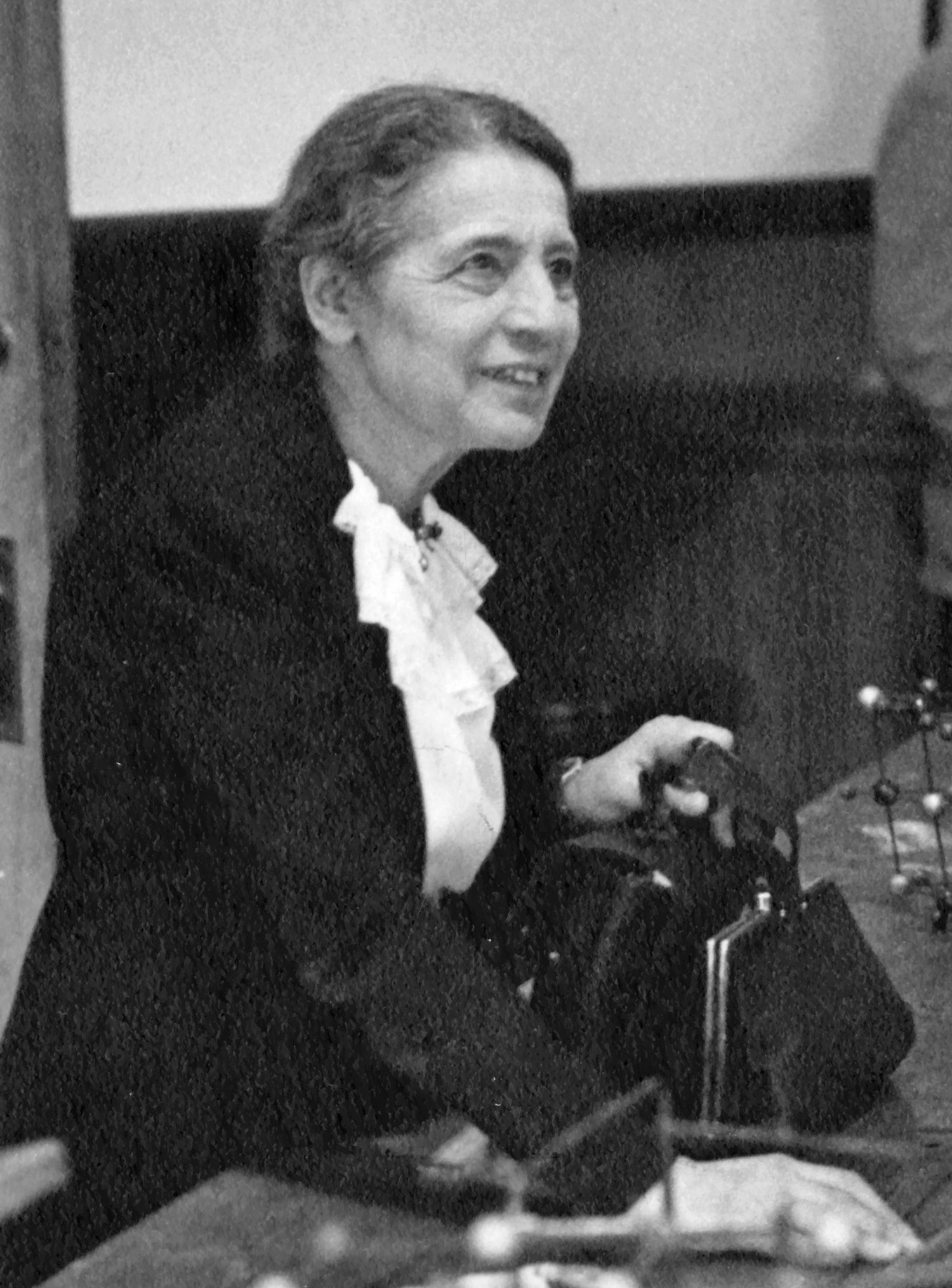 Creator: Briggs, C.A Subject: Meitner, Lise 1878-1968 Catholic University of America Type: Black-and-white photographs Date: 1946 Topic: Physics Women scientists Local number: SIA Acc. 90-105 [SIA2008-5996] Summary: In 1938, Austrian-born physicist Lise Meitner (1878-1968) fled Germany and eventually became a Swedish citizen. After World War II, Meitner received many awards, including being named "Woman of the Year" at the National Press Club in 1946. She was a Visiting Professor of Physics at Catholic University during Spring 1946. In a press release associated with her arrival, Dr. Meitner emphasized that her goal was "wholly educational": "I have no intention to suggest how atomic energy should be controlled, beyond expressing my sincere hope that no occasion will again arise where it will be utilized in war. A lasting peace is more desirable than the creation of weapons which might lead to the extermination of mankind." Cite as: Acc. 90-105 - Science Service, Records, 1920s-1970s, Smithsonian Institution Archives Persistent URL: [1] Repository: Smithsonian Institution Archives